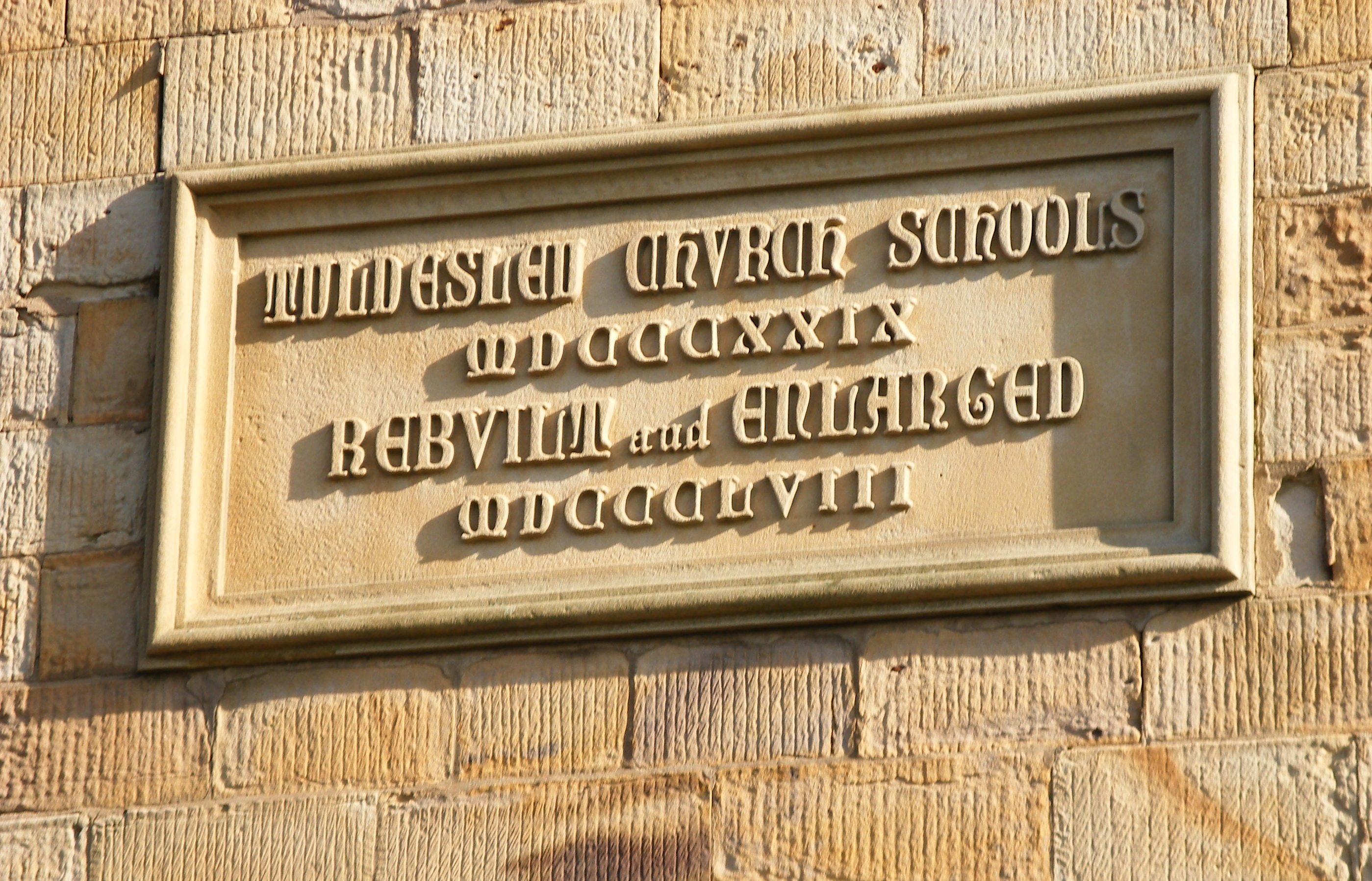 Plaque outside the old St George's School.